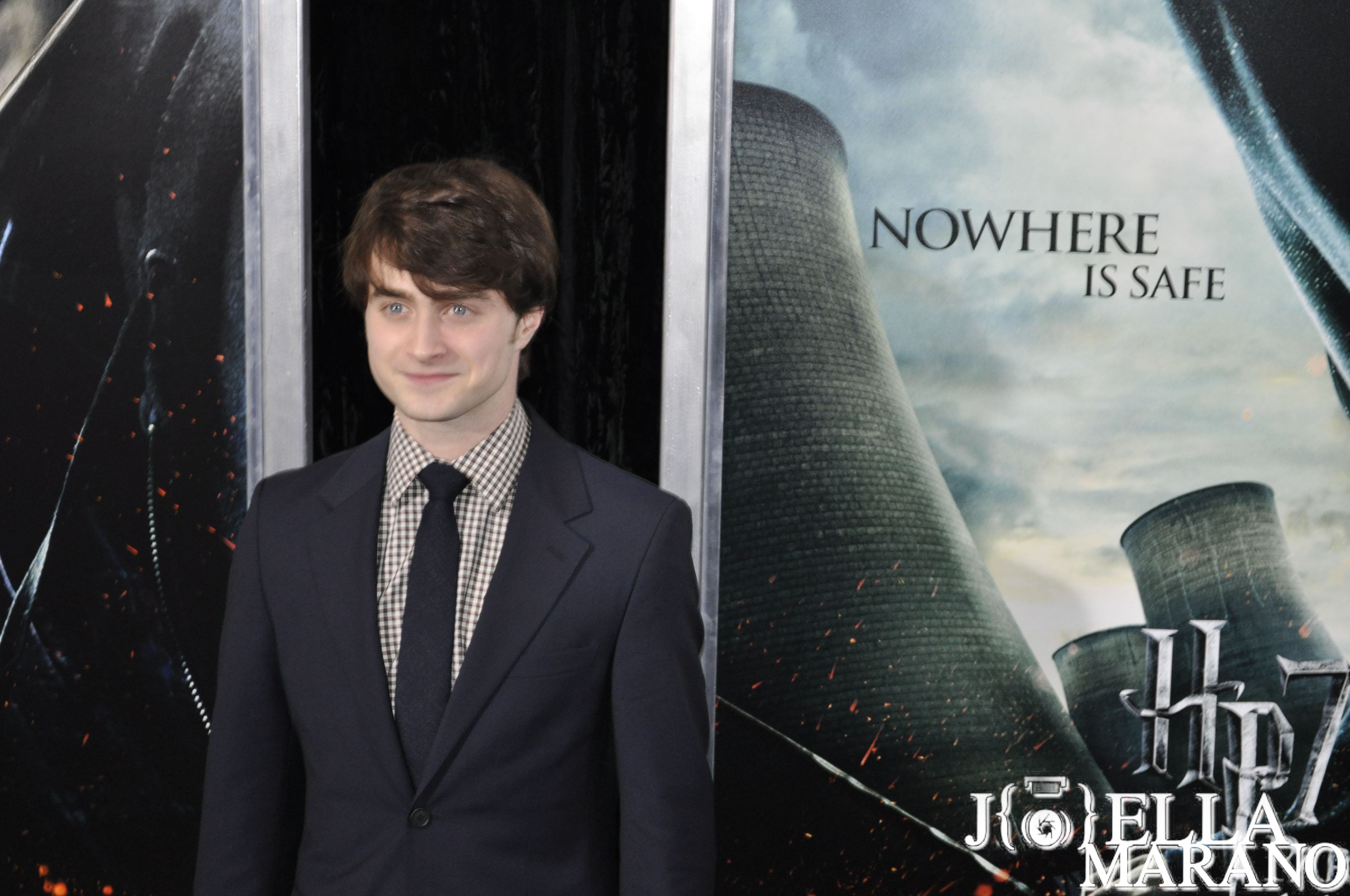 Harry Potter and The Deathly Hallows Premiere Alice Tully Center- NYC November 15th 2010